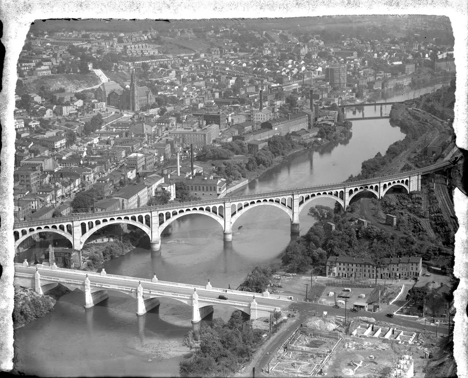 Aerial views of the Pennsylvania Railroad's Manayunk Bridge spanning the Schuylkill River at Green Lane in Philadelphia, Pennsylvania. Today, the bridge also spans the Schuylkill Expressway (I-76). Bridge was built by Philadelphia contractor T. L. Eyre in 1918. View looks southeast towards Manayunk from Green Lane, with the Green Lane automobile bridge also visible. Beginning stages of construction projects are visible on the west bank of the river at Green Lane. Image taken by the Aero Service Corporation ca. 1918 (P.8990.8844).